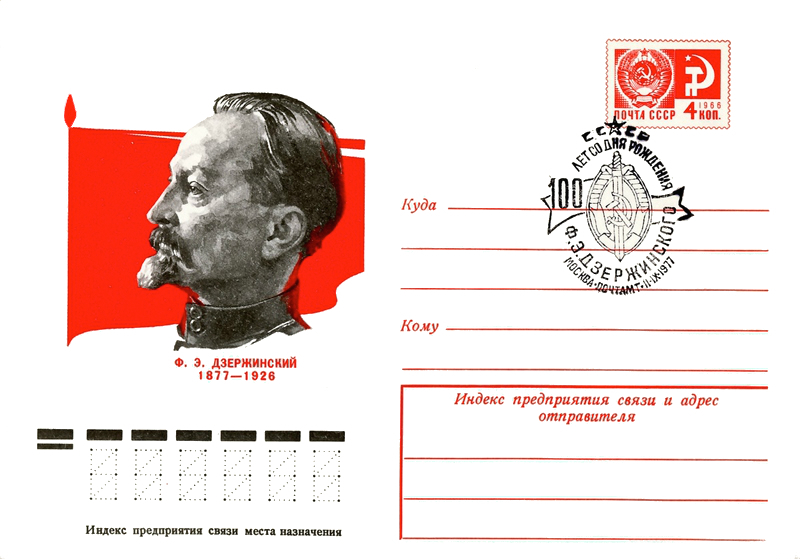 1977 postal cover of the Soviet Union featuring a portrait of Felix Edmundovich Dzerzhinsky.